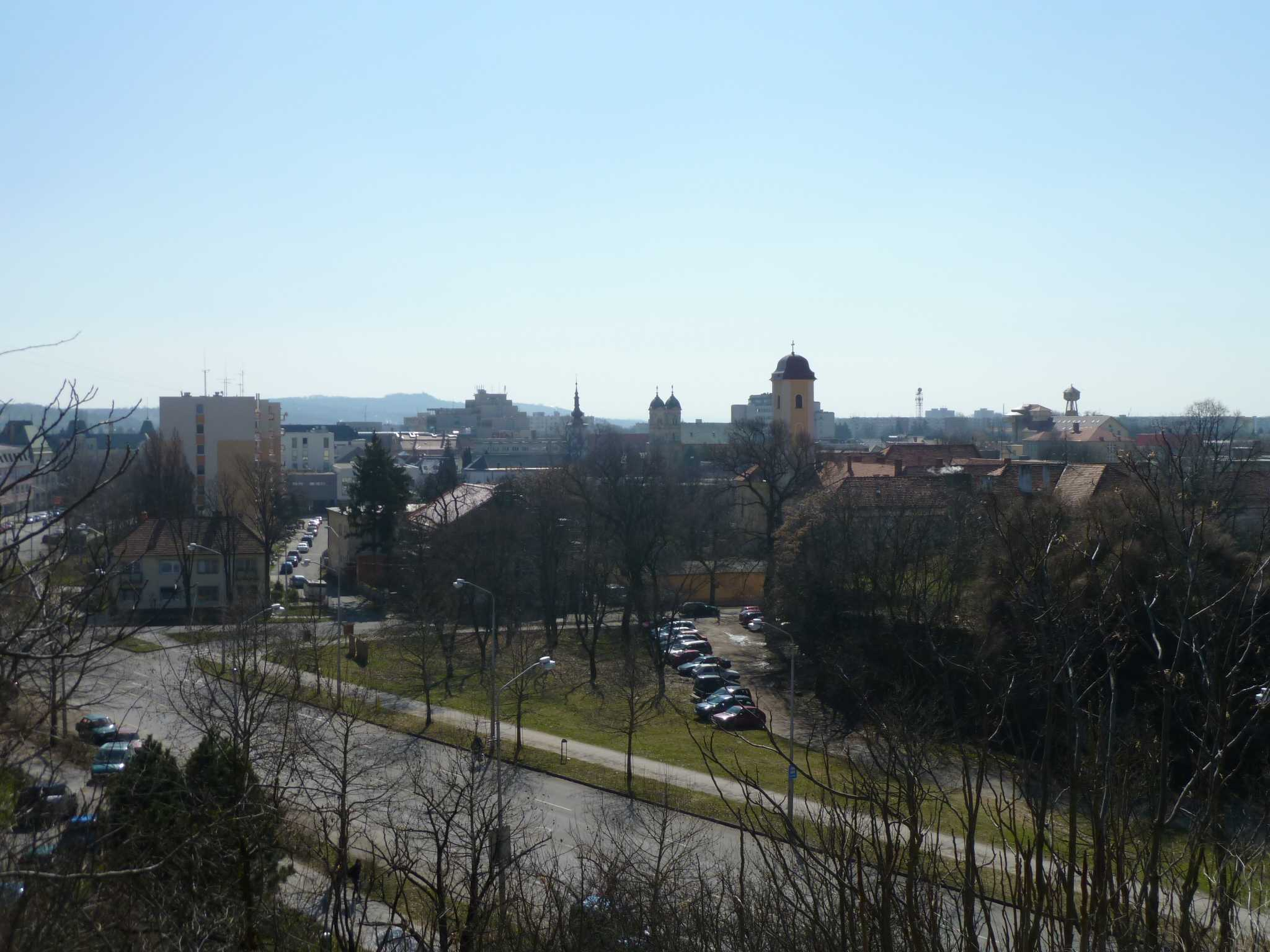 View of Levice